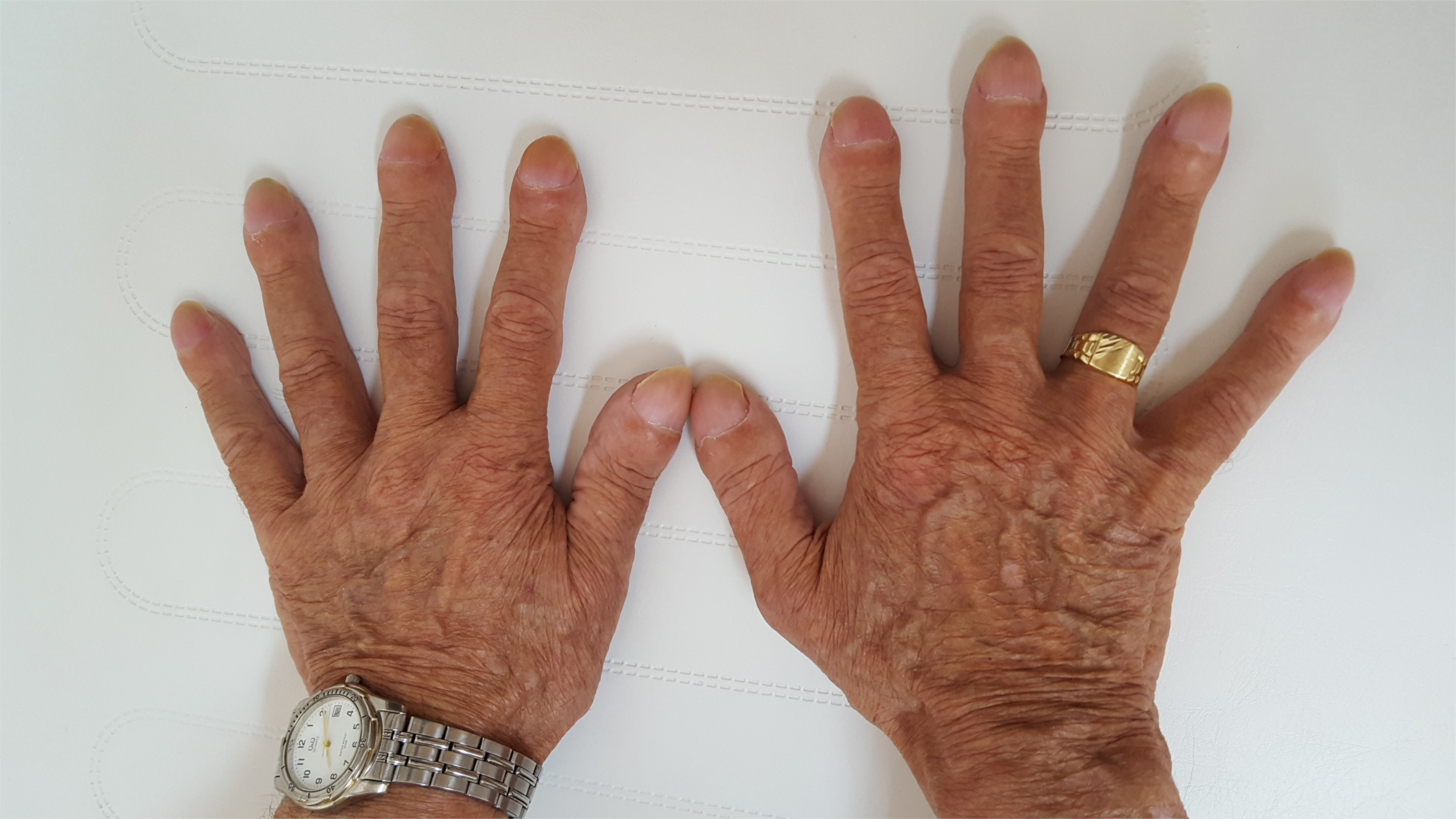 clubbing fingers